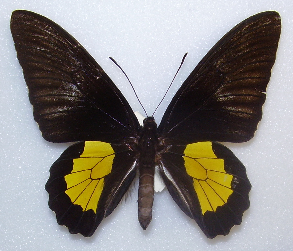 Troides plato Male, upperside. Kupang, Timor March 1975